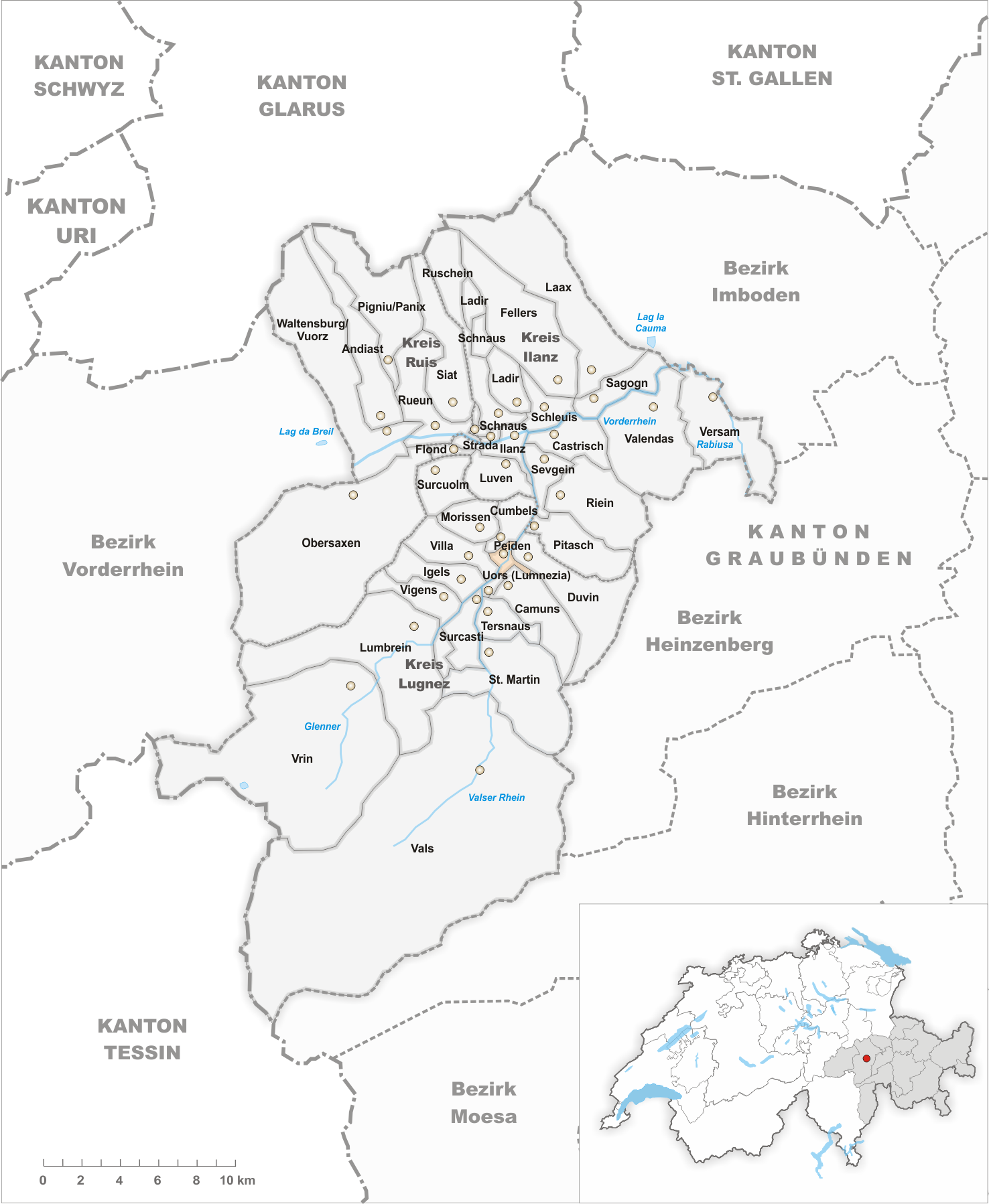 Municipality Peiden Artist: Tschubby